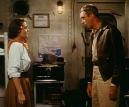 Joanne Dru and James Stewart in Thunder Bay (1953) - trailer (cropped screenshot)